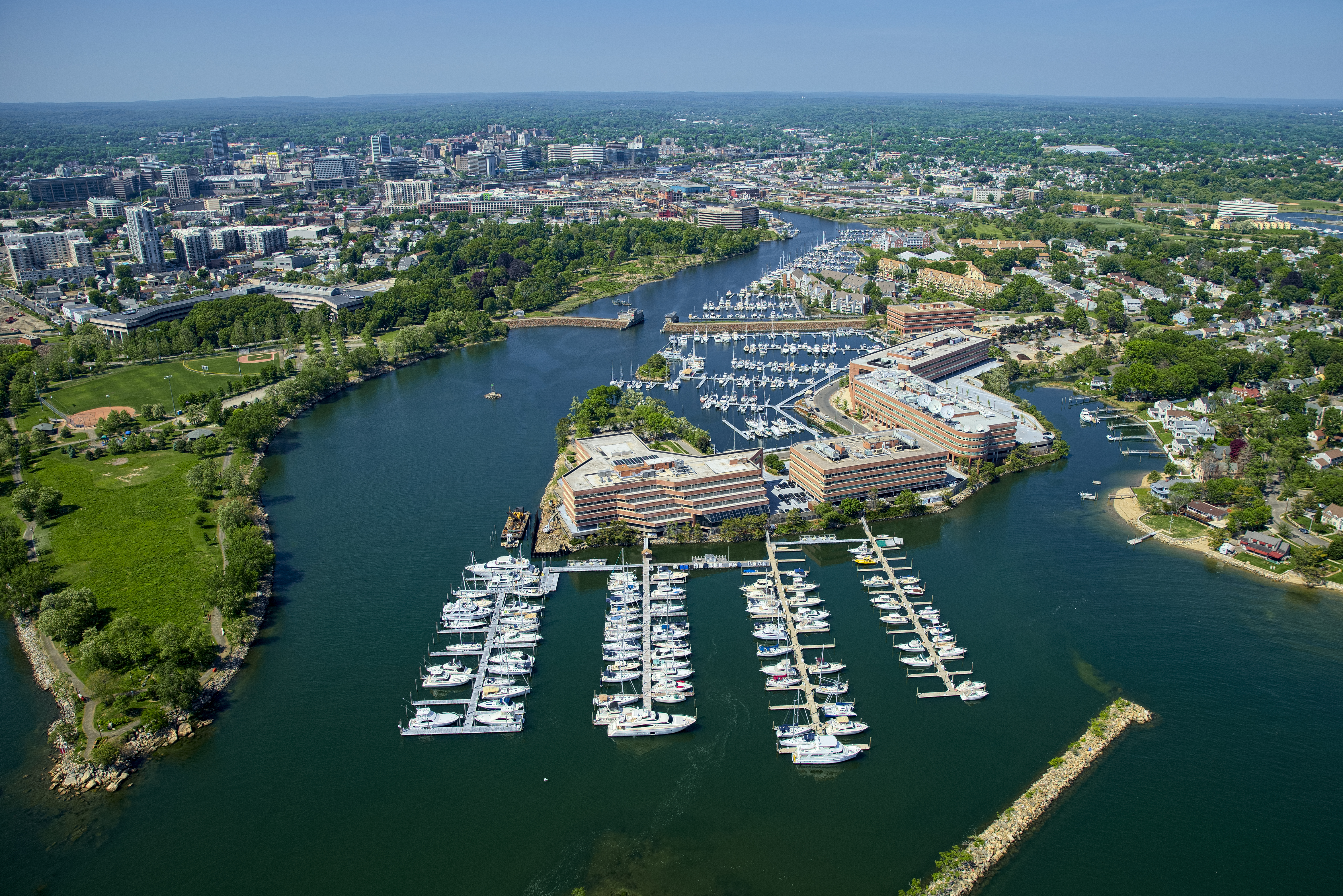 Stamford, Connecticut skyline aerial with Shippan Point and the Stamford Harbor in the foreground, and Stamford's South End and Stamford Downtown behind it. The Shippan Landing office park is homne to the headquarters of Vineyard Vines, A+E Networks, Octagon Sports, YES Network and First Reserve